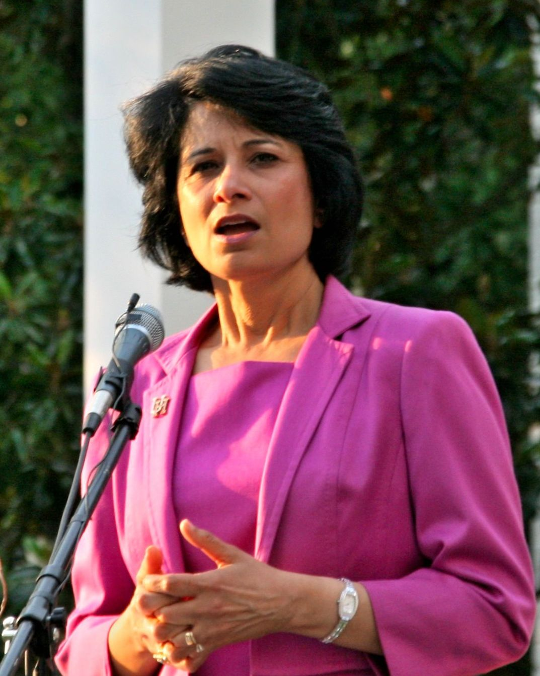 Renu Khator, Ph.D. at the 2010 Commencement of Duchesne Academy of the Sacred Heart in Houston, Texas